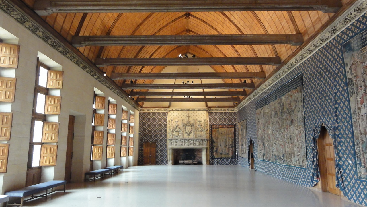 Salle du Tau in the Palais du Tau (Reims)